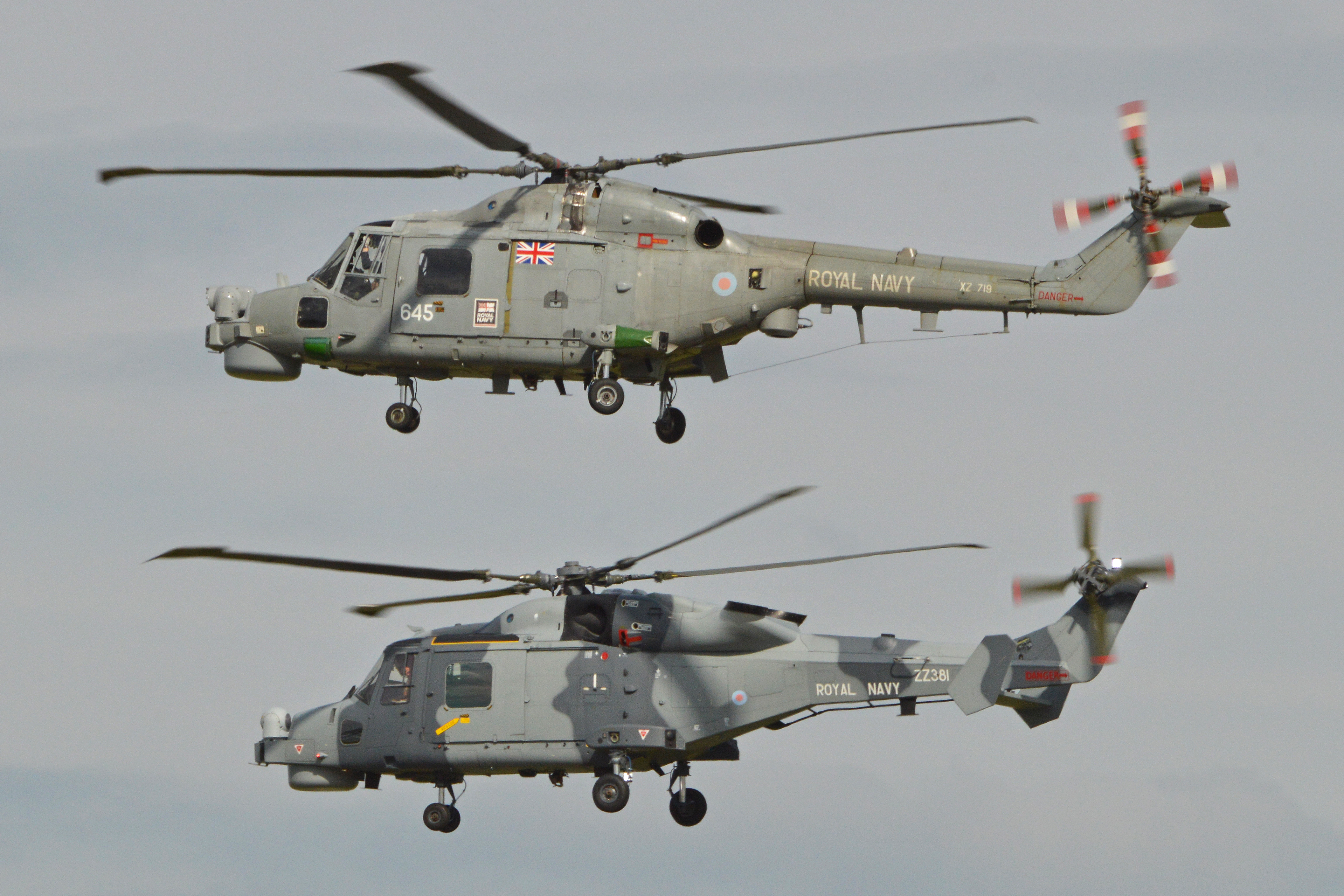 This is the new shape of the Royal Navy Blackcats, which are flying a Lynx and a Wildcat for the 2014 season. The Lynx (above) is an HMA8RSU 'XZ719 / 645' operated by 815sqn and is c/n 164. The Wildcat is an HMA2 'ZZ381' operated by 700sqn and is c/n 500. Both are based at RNAS Yeovilton. 2014 Waddington Airshow. RAF Waddington, Lincolnshire, UK. 05-7-2014